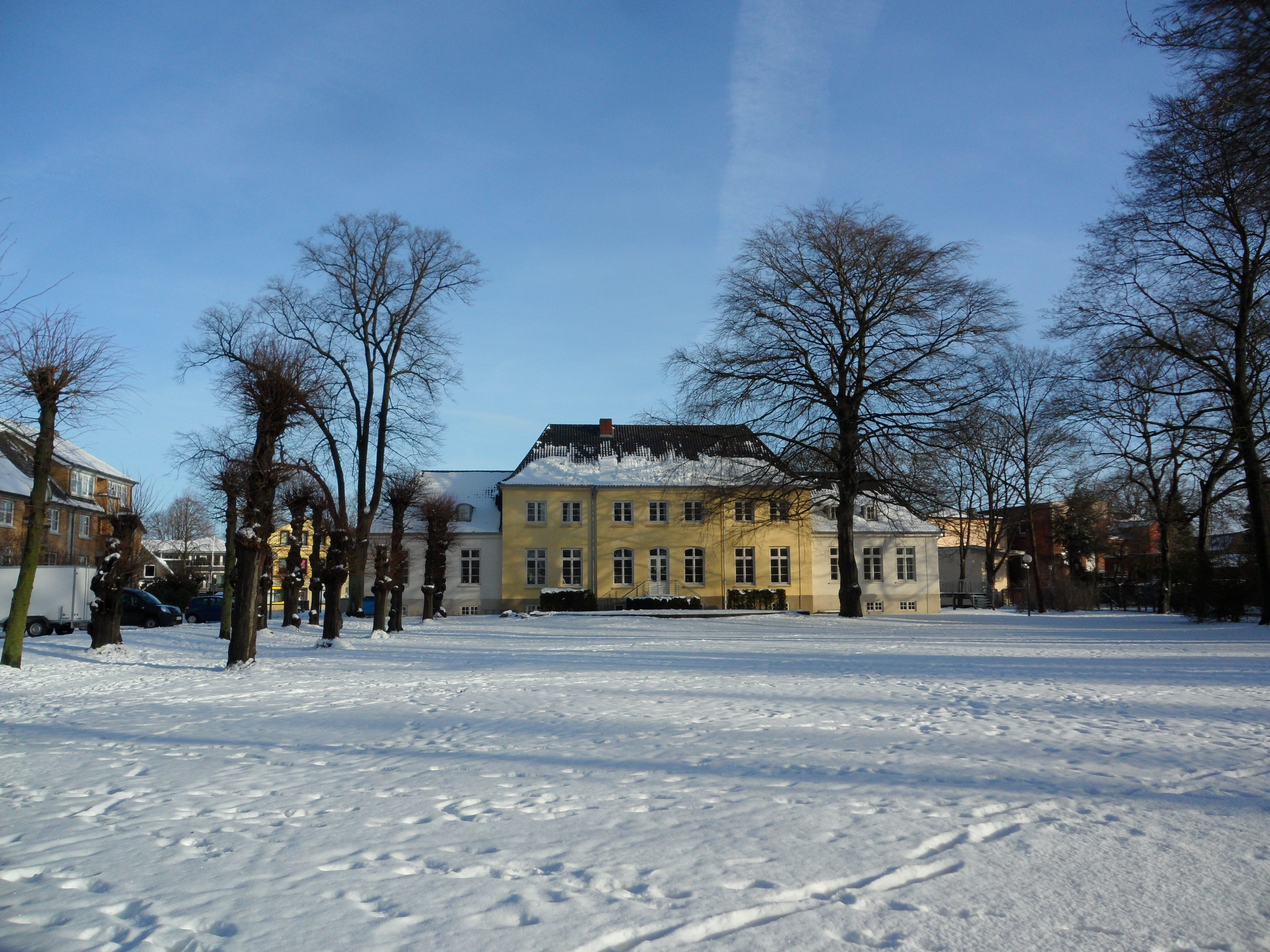 Backside and park of the Caspar von Saldern Haus in Neumünster